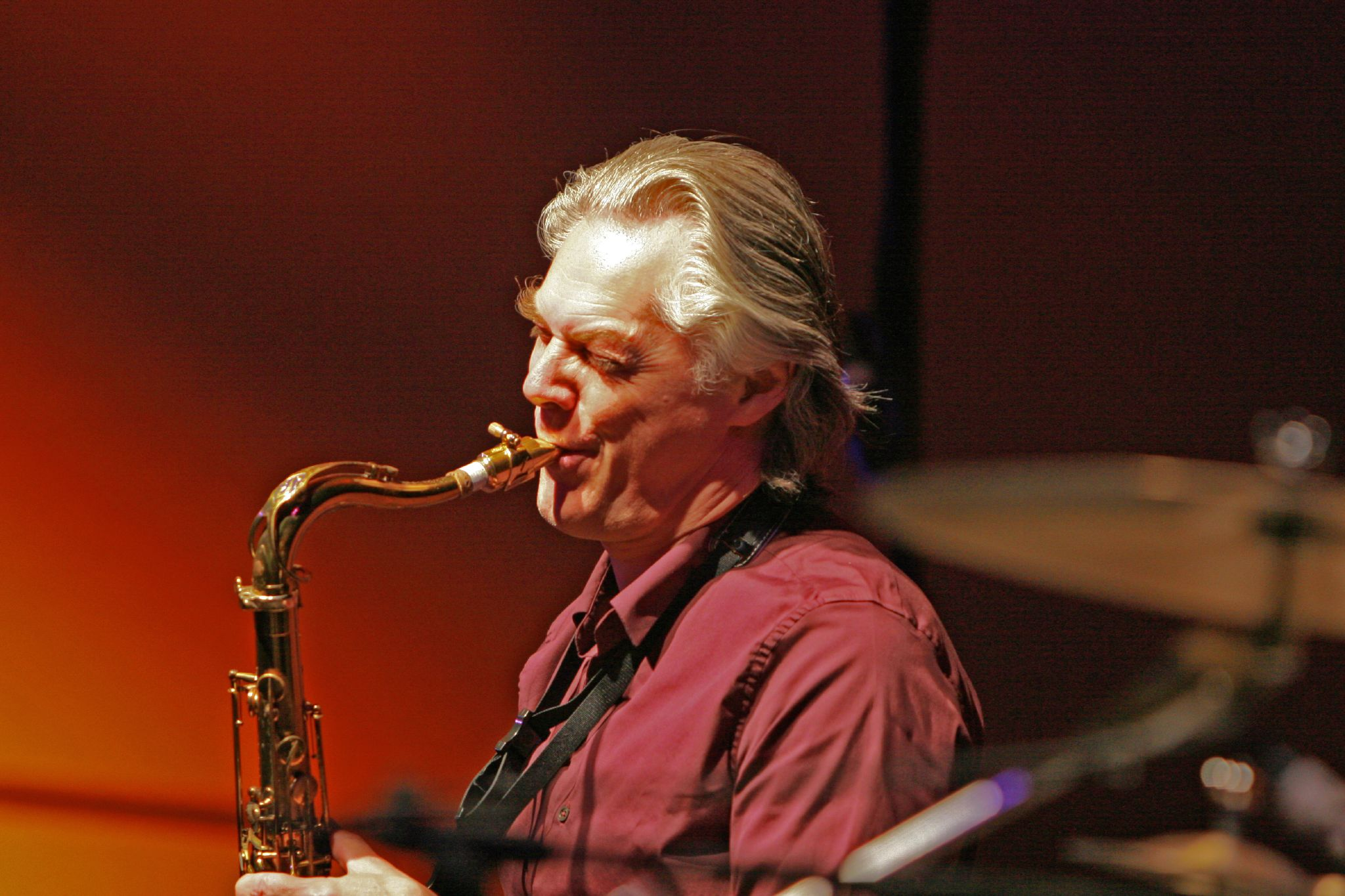 Jan Garbarek Group Athens magical concert in Lycabettus theater, July 10th, 2007